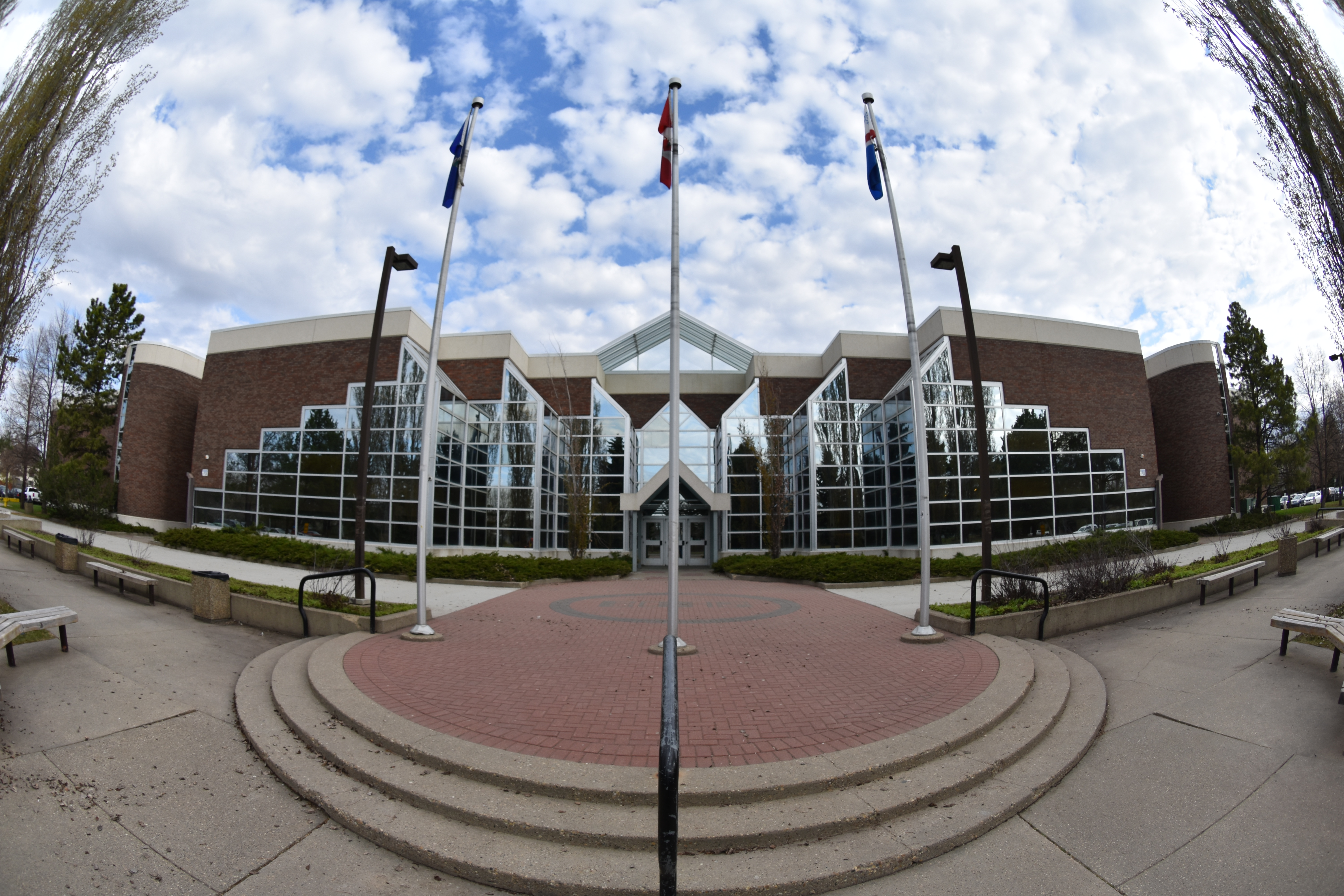 Wide angle photo of the front side of Bellerose Composite High School